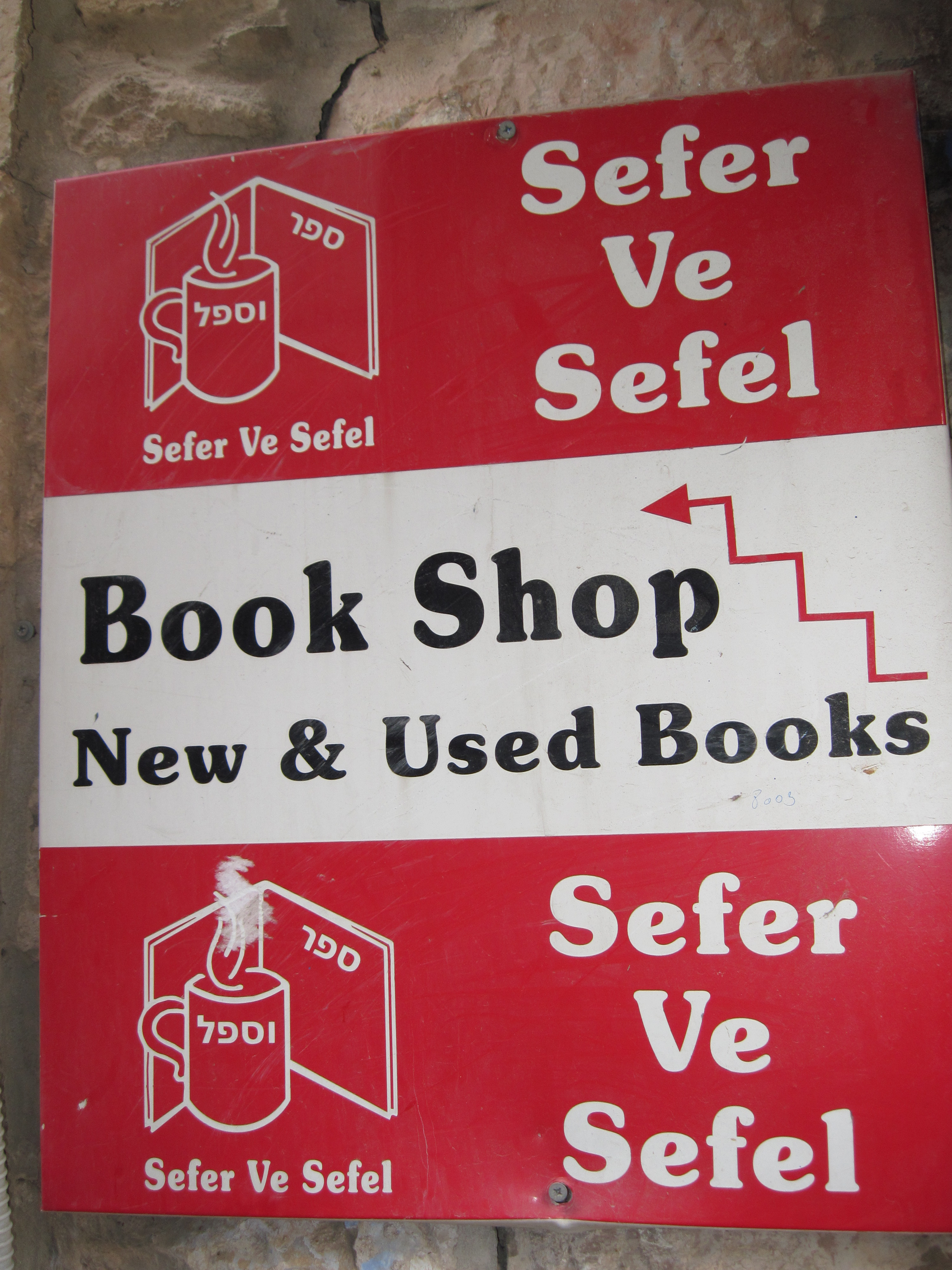 Sign with logo of Sefer ve Sefel secondhand bookshop, 2 Ya'avetz St., Jerusalem, Israel